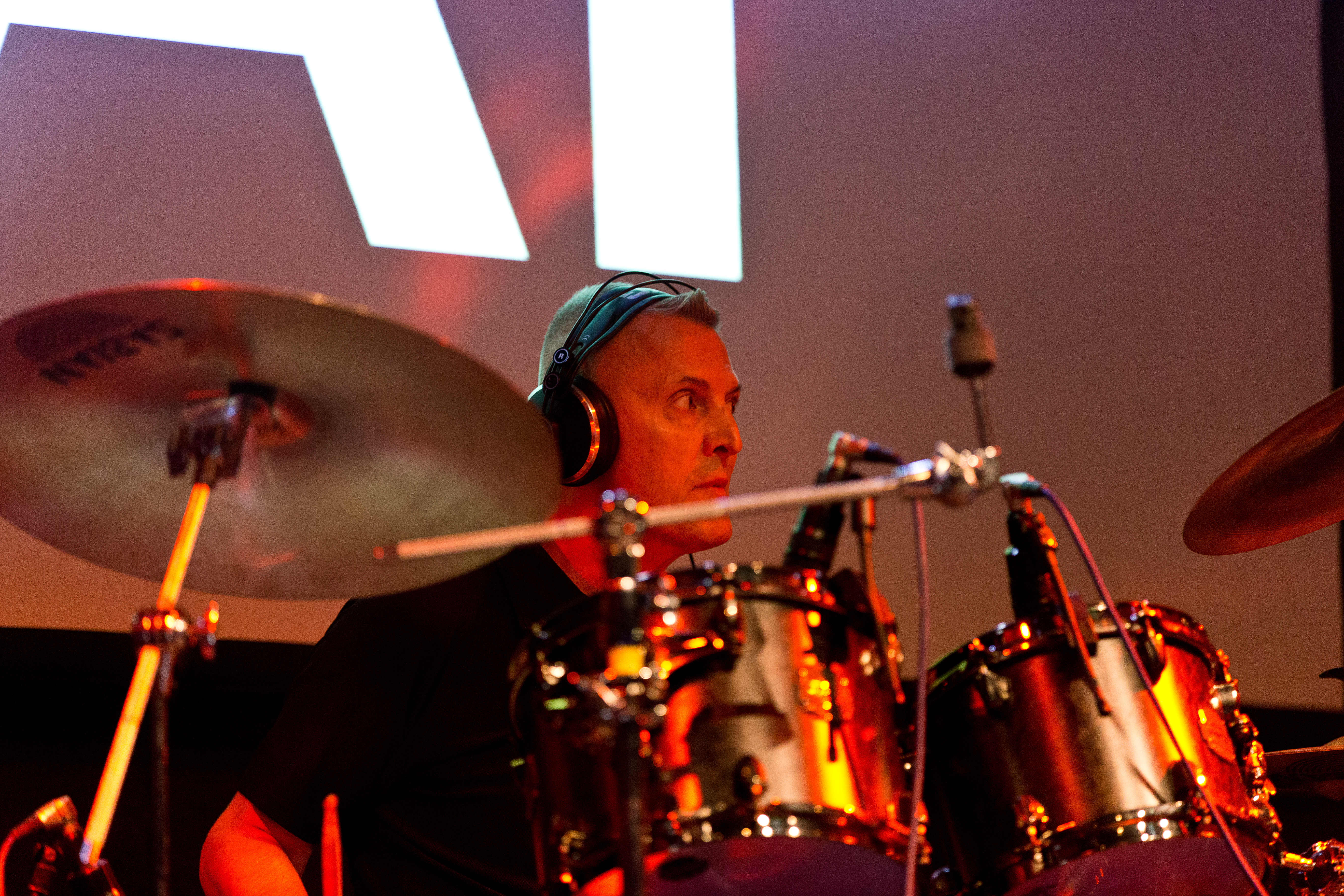 The German EBM band DAF at the Nocturnal Culture Night 11 2016 in Deutzen/Germany.